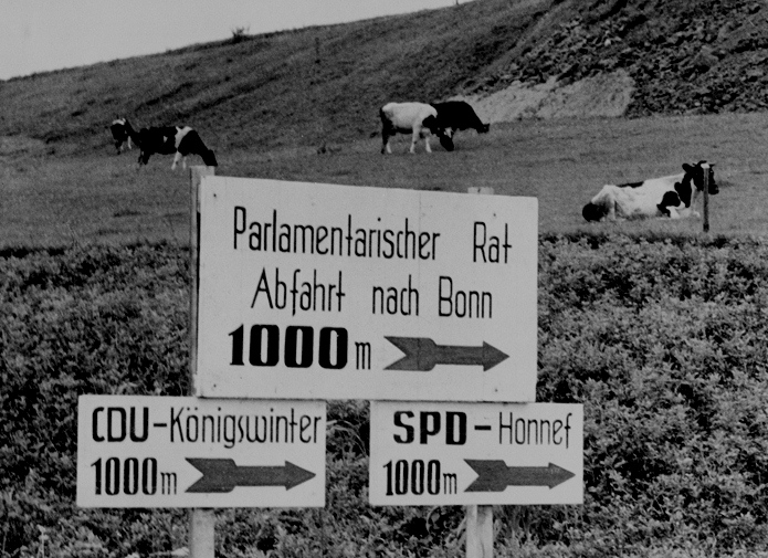 Traffic signs guide the way to the Parlamentarischer Rat ("Parliamentary Council") in Bonn, Germany 1949